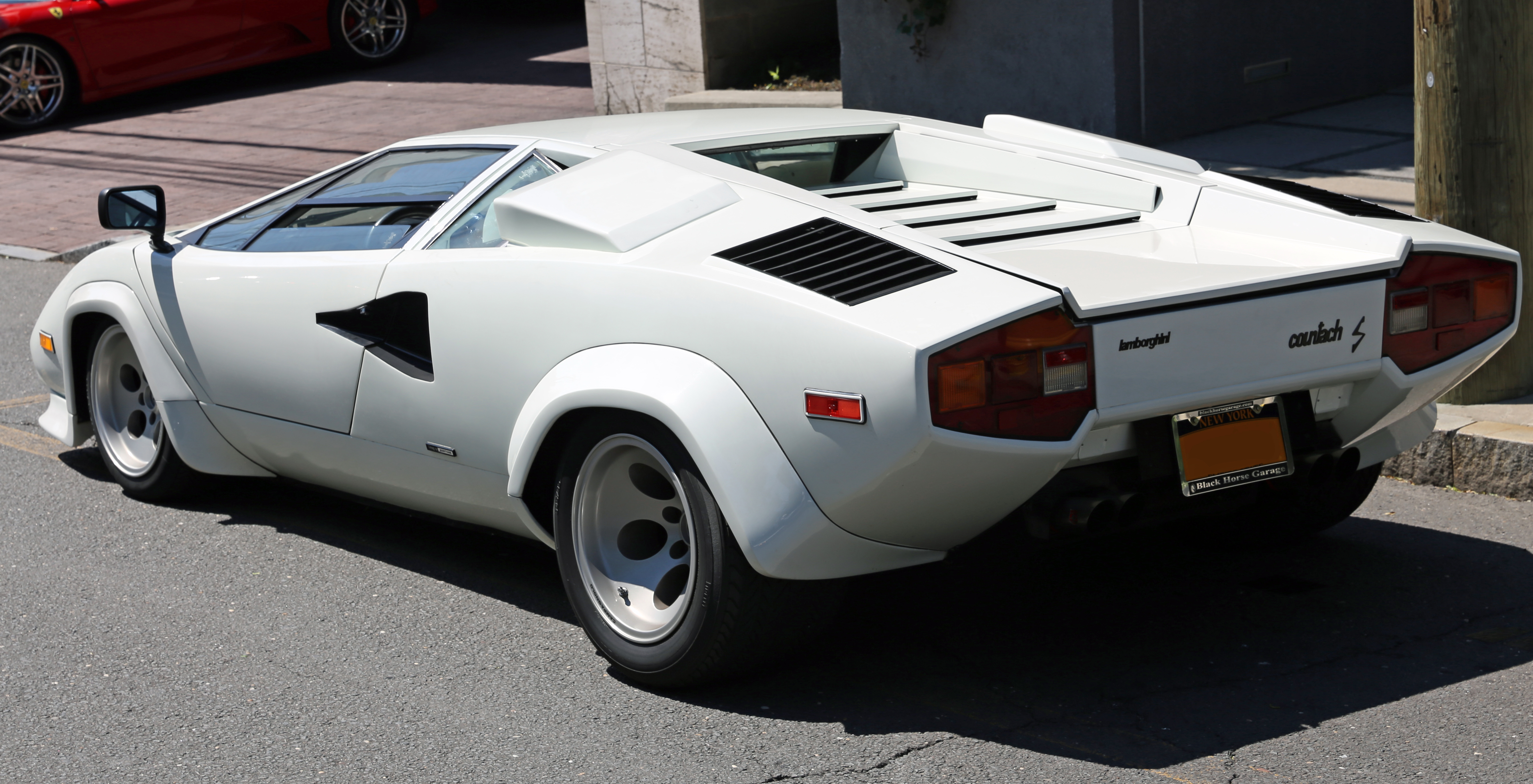 Rear view of 1981 Lamborghini Countach LP400S, a late series 2 version.